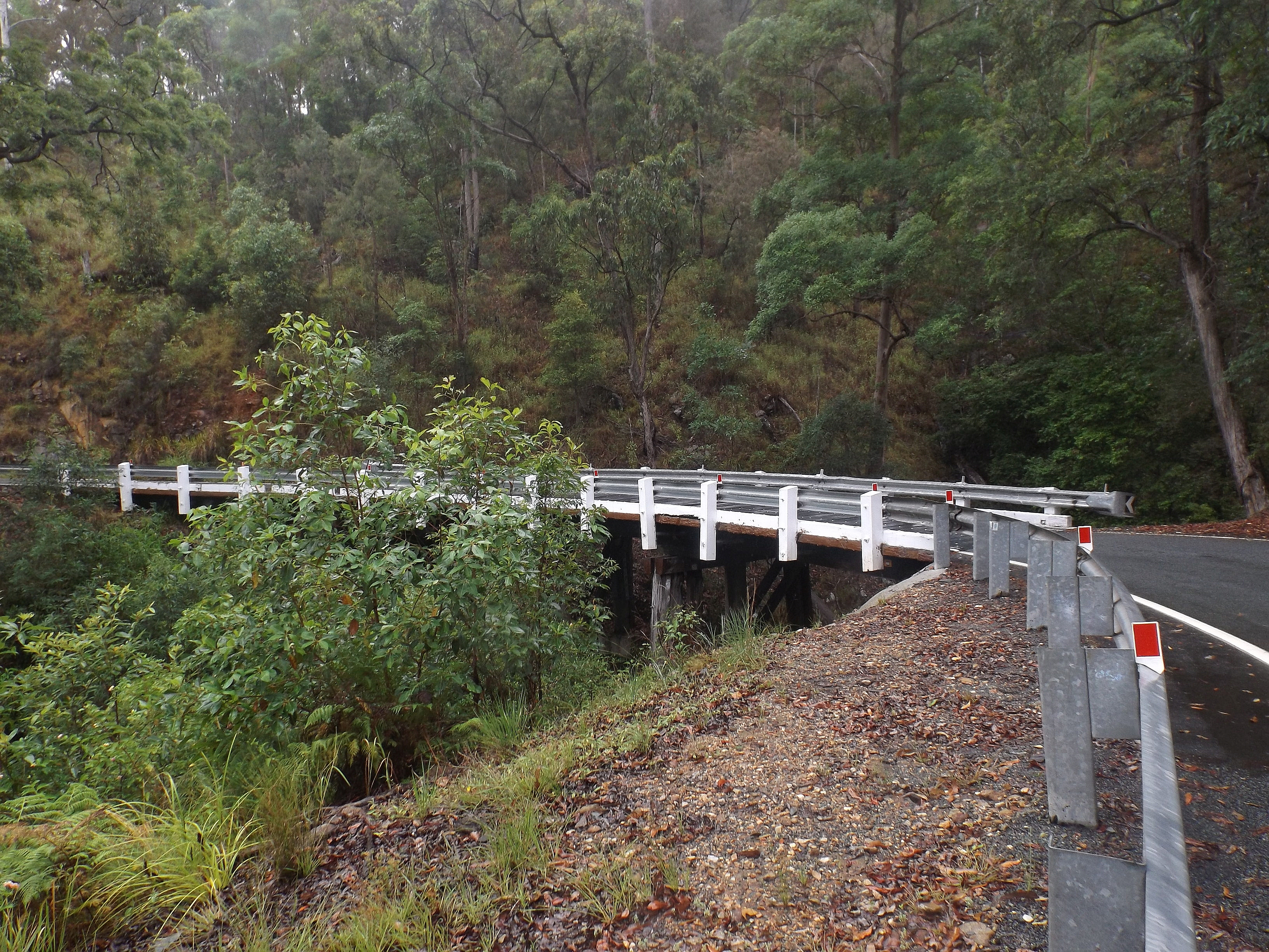 Photo of the lower wooden bridge along Springbrook Road at Springbrook, City of Gold Coast, Queensland, Australia